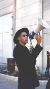 Hamuchtar, 1993